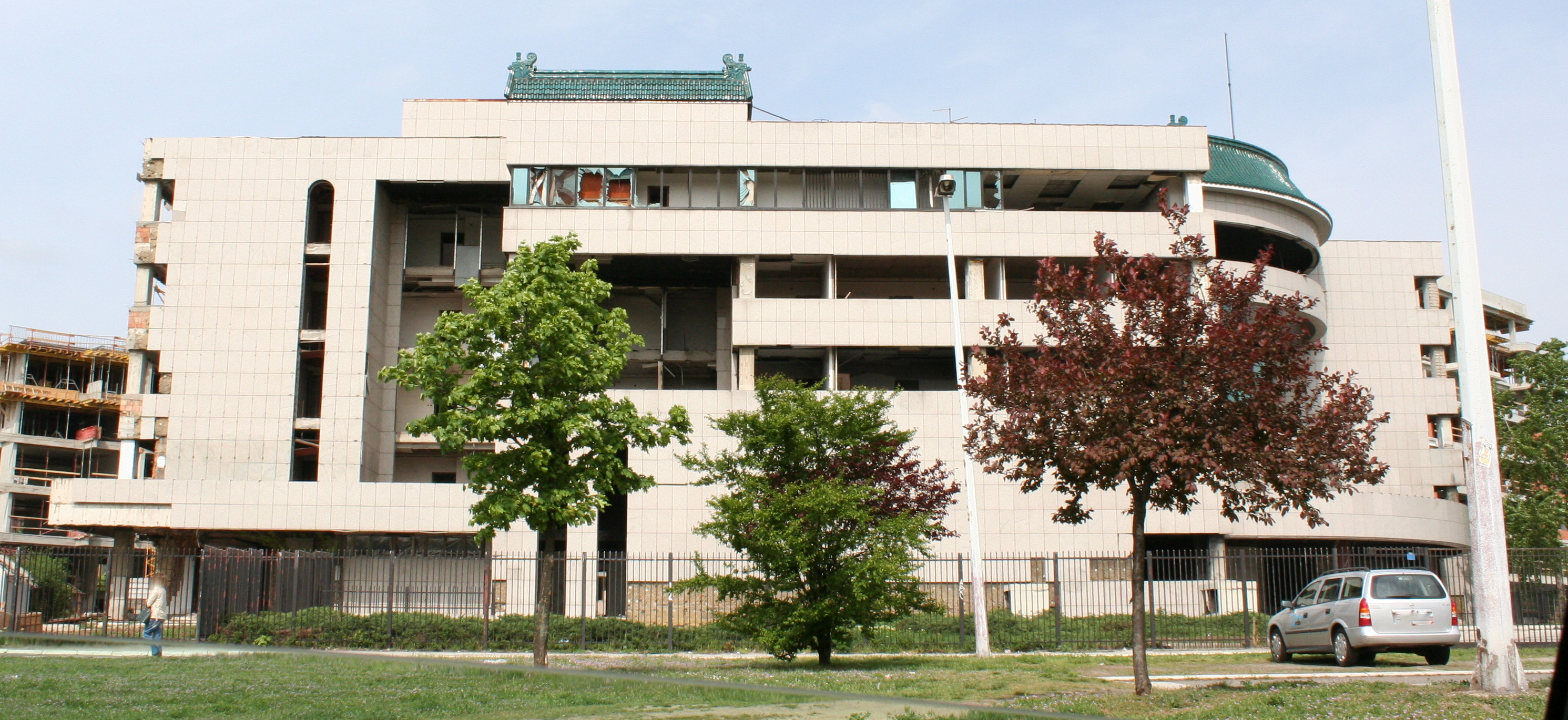 The Chinese Embassy in Belgrade 10 years after aerial bombing by US military aircraft